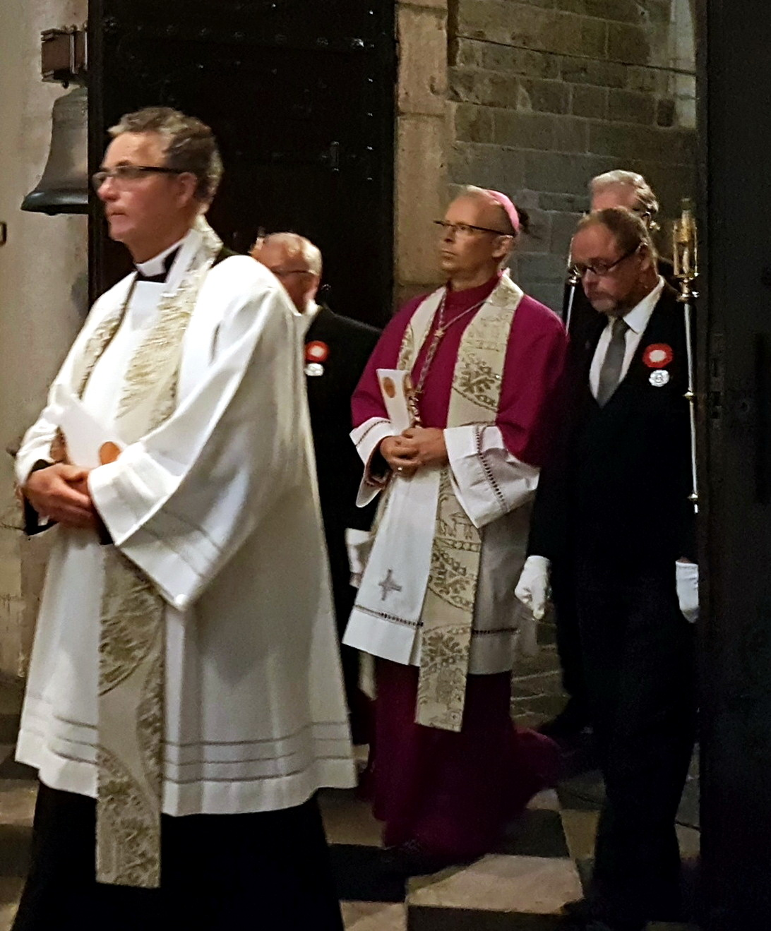 Clergy entering the Basilica of Saint Servatius in Maastricht, Netherlands. This is part of a church service in which the main relics of the church are venerated. It was one of the highlights of the 2018 Heiligdomsvaart ("relics pilgrimage"), a religious and historic event that takes place once in seven years and dates back to the Middle Ages. In the foreground the dean of Maastricht, John Dautzenberg. Behind him, in purple, the papal nuncio to Sudan, Bert van Megen.